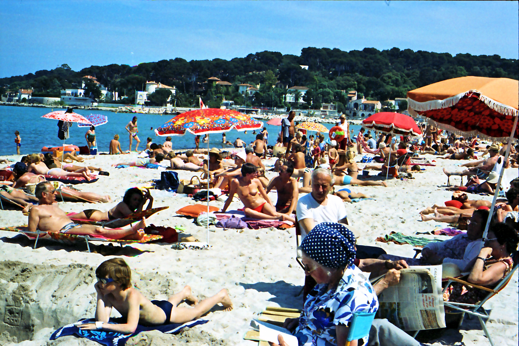 Beach of Cannes France 1980